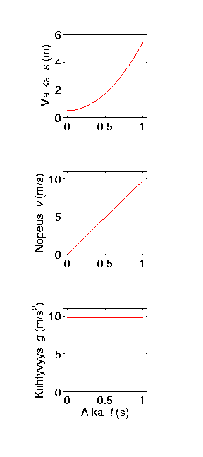 Example of derivated parabola